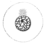 Diagram showing the changes which occur in the centrosomes and nucleus of a cell in the process of mitotic division. (Schäfer.) This plate originally showed six stages, it now just shows phase I, interphase. Gray's Anatomy plate:Diagram showing the changes which occur in the centrosomes and nucleus of a cell in the process of mitotic division. (Schäfer.) This plate originally showed six stages, it now just shows phase I, interphase.